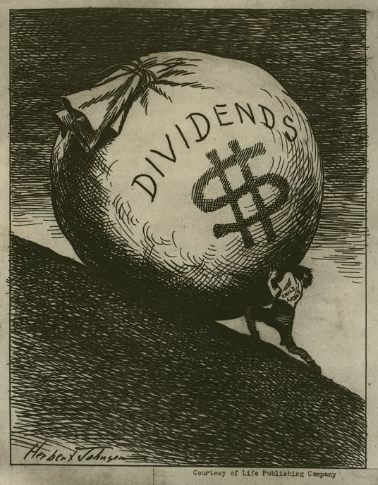 Photograph from the records of the National Child Labor Committee (U.S.)